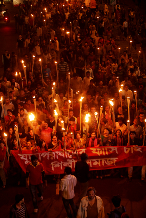 Uprising of people at Shahbag, Dhaka, Bangladesh demanding death penalty of Kader Molla and all other war criminals who are now being tried before the International Crimes Tribunal Bangladesh for the serious crimes they have committed during the Liberation War of Bangladesh in 1971. Perpetrators of war crimes, genocide and crimes against humanity have NO place in Bangladesh. This is public opinion. BACKGROUND: On 5 February 2013, International Crimes Tribunal-2 delivered judgment against Kader Molla, who was accused of rape of minor and at least 350 murders. Tried for his crimes against humanity, his crimes were proven beyond reasonable doubt, according to the judgment. However, the Tribunal comprising of Mr Shahinur Islam, Obaidul Hasan Shahin and Mojibur Rahman awarded Kader Molla life sentence, instead of death penalty which the accused deserved. People, rejecting this lenient sentence, has risen, in Dhaka and other cities in Bangladesh.